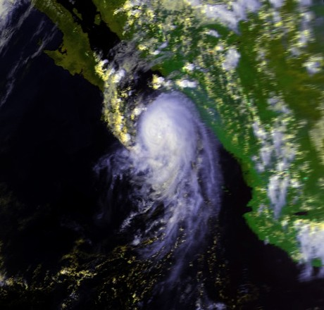 Hurricane Newton on September 22 at approximately 2215 UTC. This image was produced from data from NOAA-9, provided by NOAA.